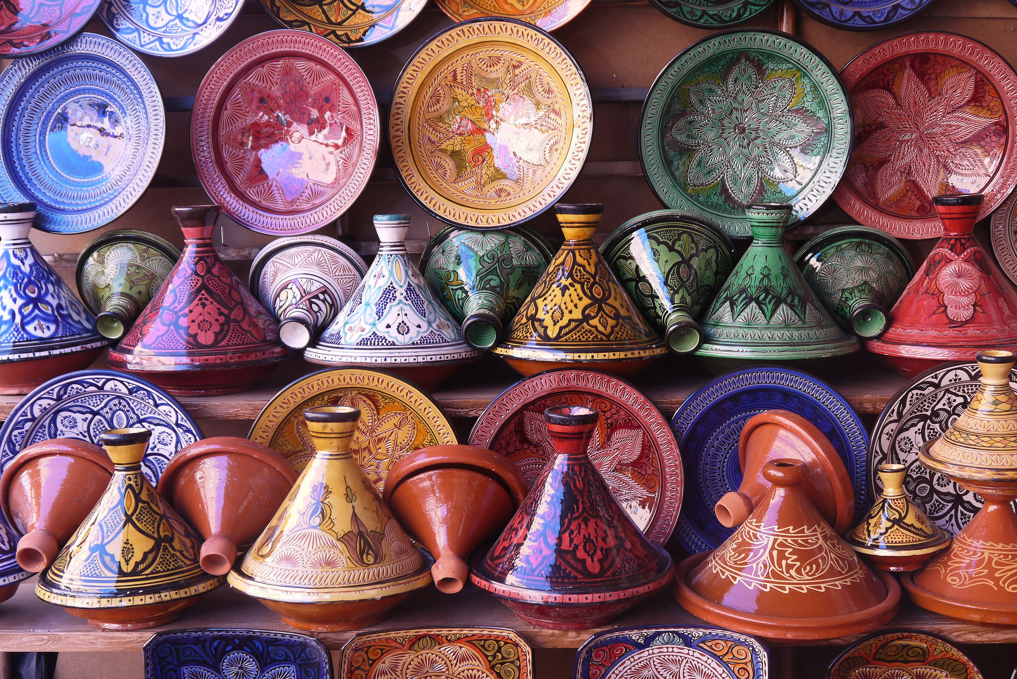 Tajines in a pottery shop in Morocco This is an image of food from Morocco Sunda: Rupa-rupa 'tajin', wadah katuangan di toko keramik/gerabah di Maroko.